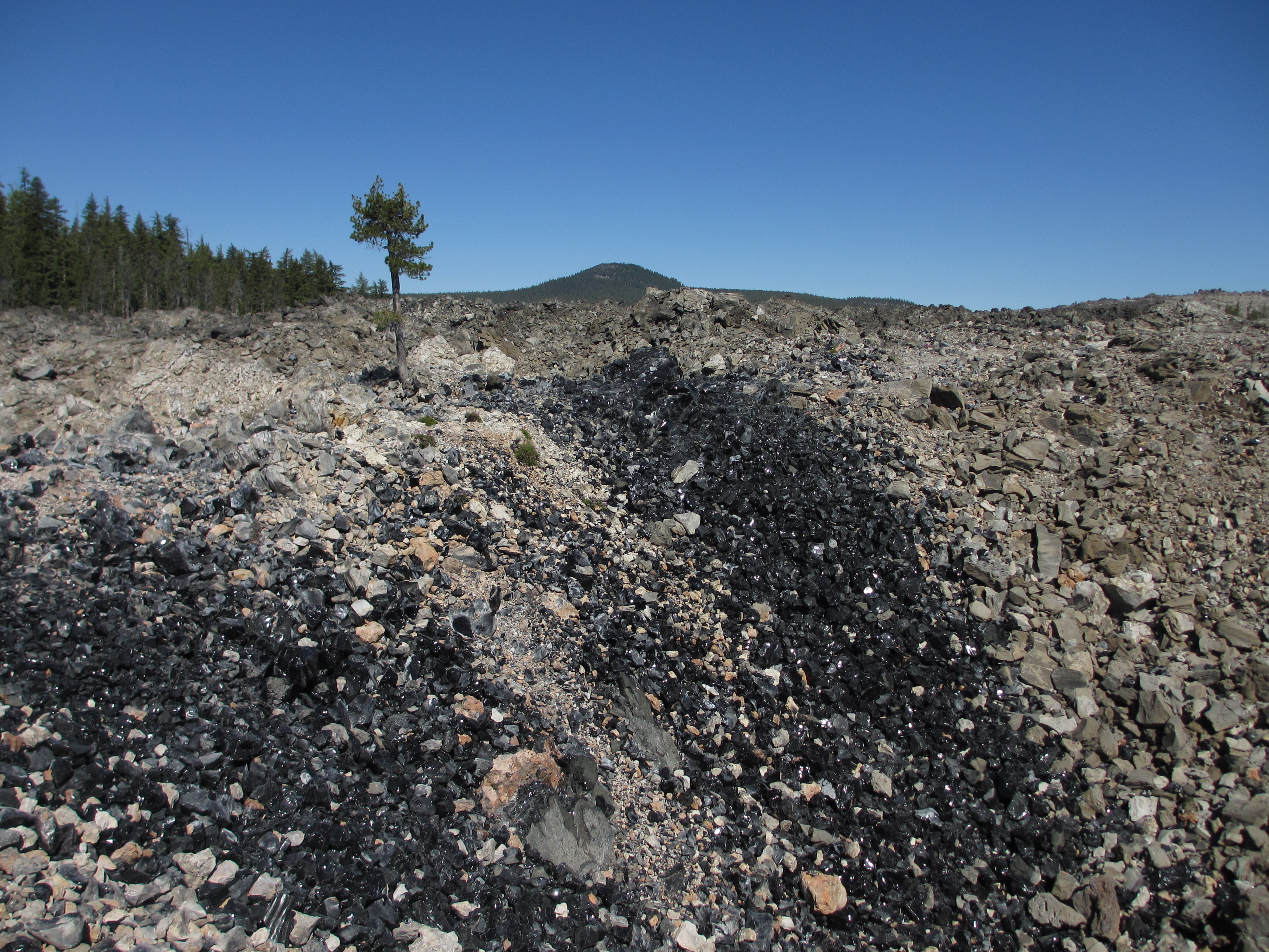 Glass Mountain, part of Medicine Lake Volcano in Northern California, USA